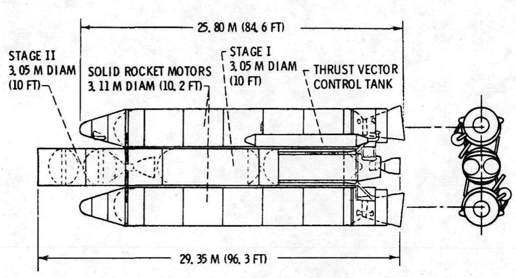 The Titan IIIE illustrated in this Figure consists of two solid rocket motors designated Stage 0 and the Titan III core vehicle Stages I and II.